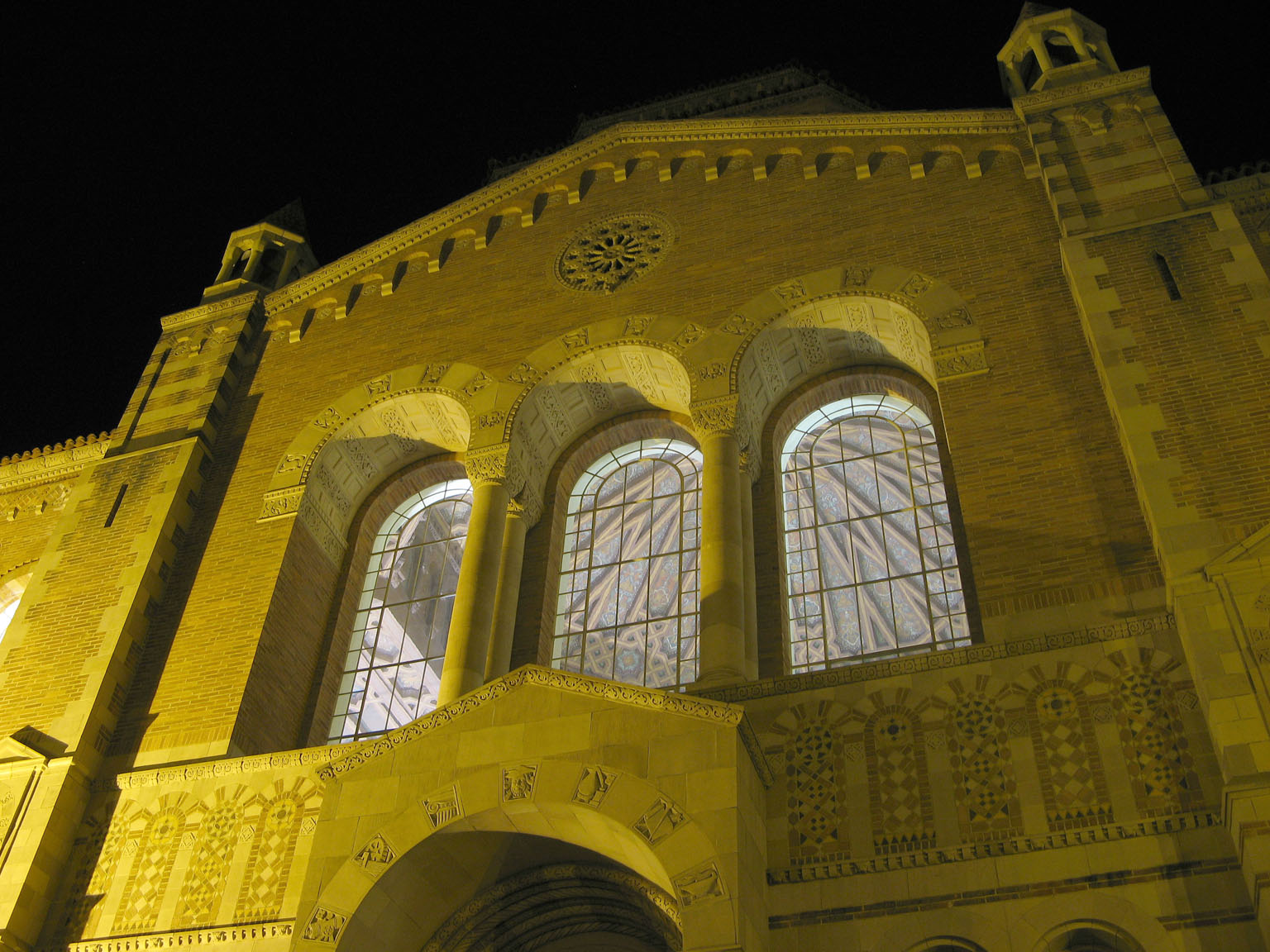 Powell Library of UCLA at night Photographed and uploaded by user:Geographer